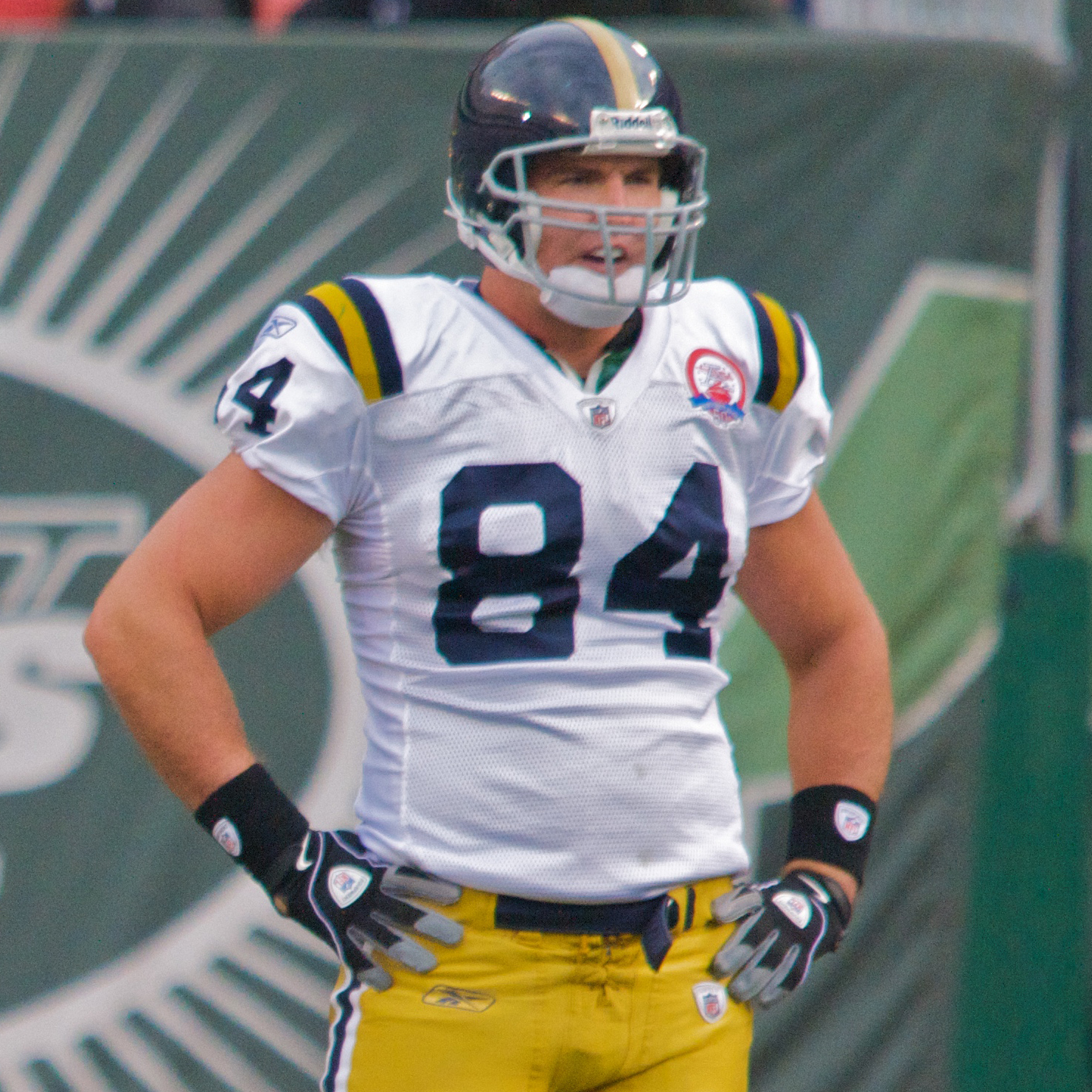 Tight end Ben Hartsock of the New York Jets This file has been extracted from another file: Robert Turner Ben Hartstock Jets-Dolphin game, Nov 2009 - 058.jpg